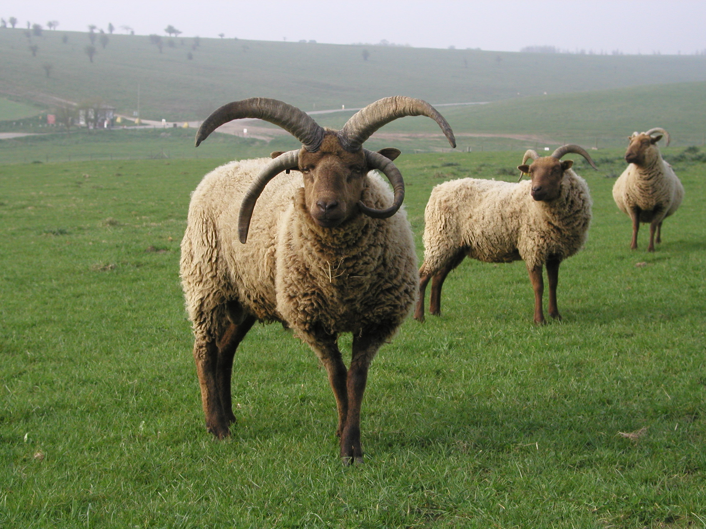 Manx Loaghtan